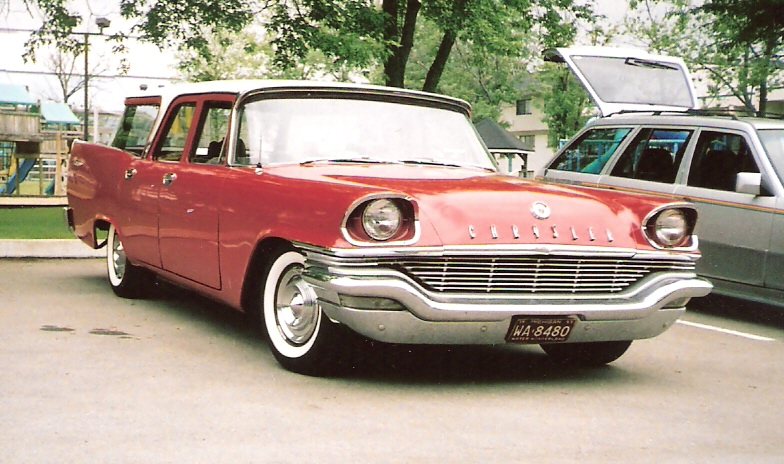 1957 Chrysler Windsor Town & Country station wagon I photographed at the third annual International Station Wagon Club convention in Niagara Falls, Ontario, Canada in June 2006.